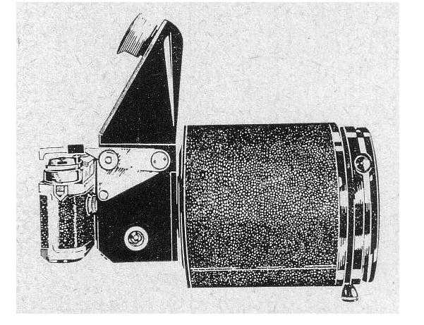 Miroplar 500 mm catadioptric lens mounted on a Foca Universel via an OPL mirror box attachment (advertisement of 1960).